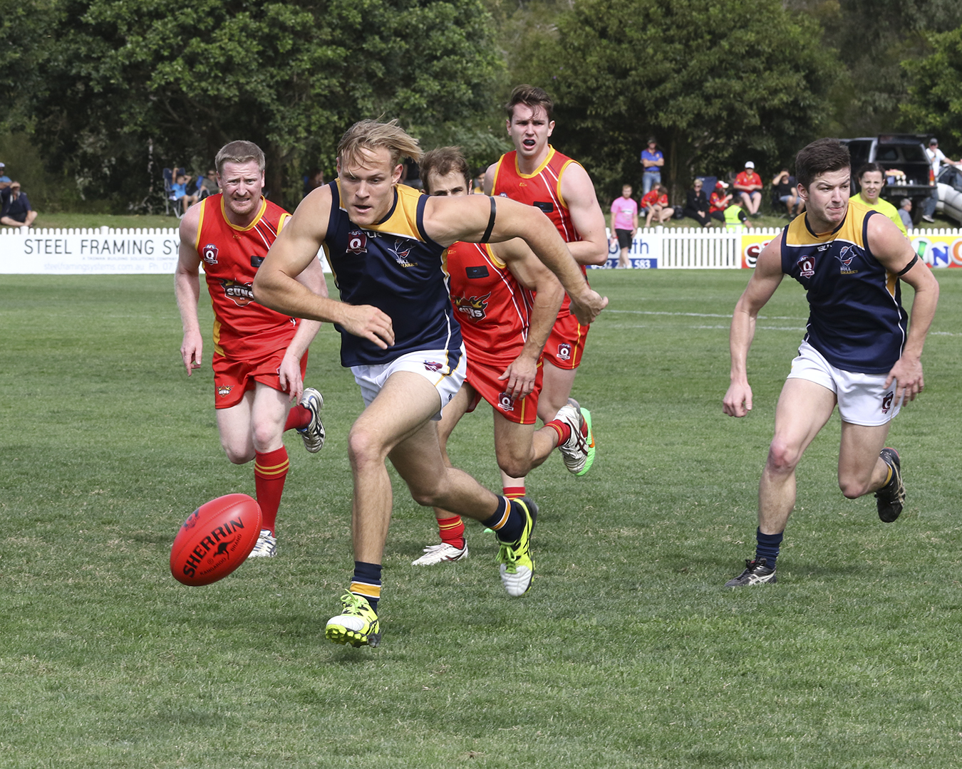 A player prepares to pick up the ball.